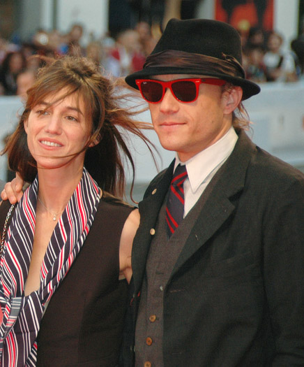 Cast of "I'm not there": Richard Gere, Todd Haynes, Charlotte Gainsbourg and Heath Ledger. Mostra 2007